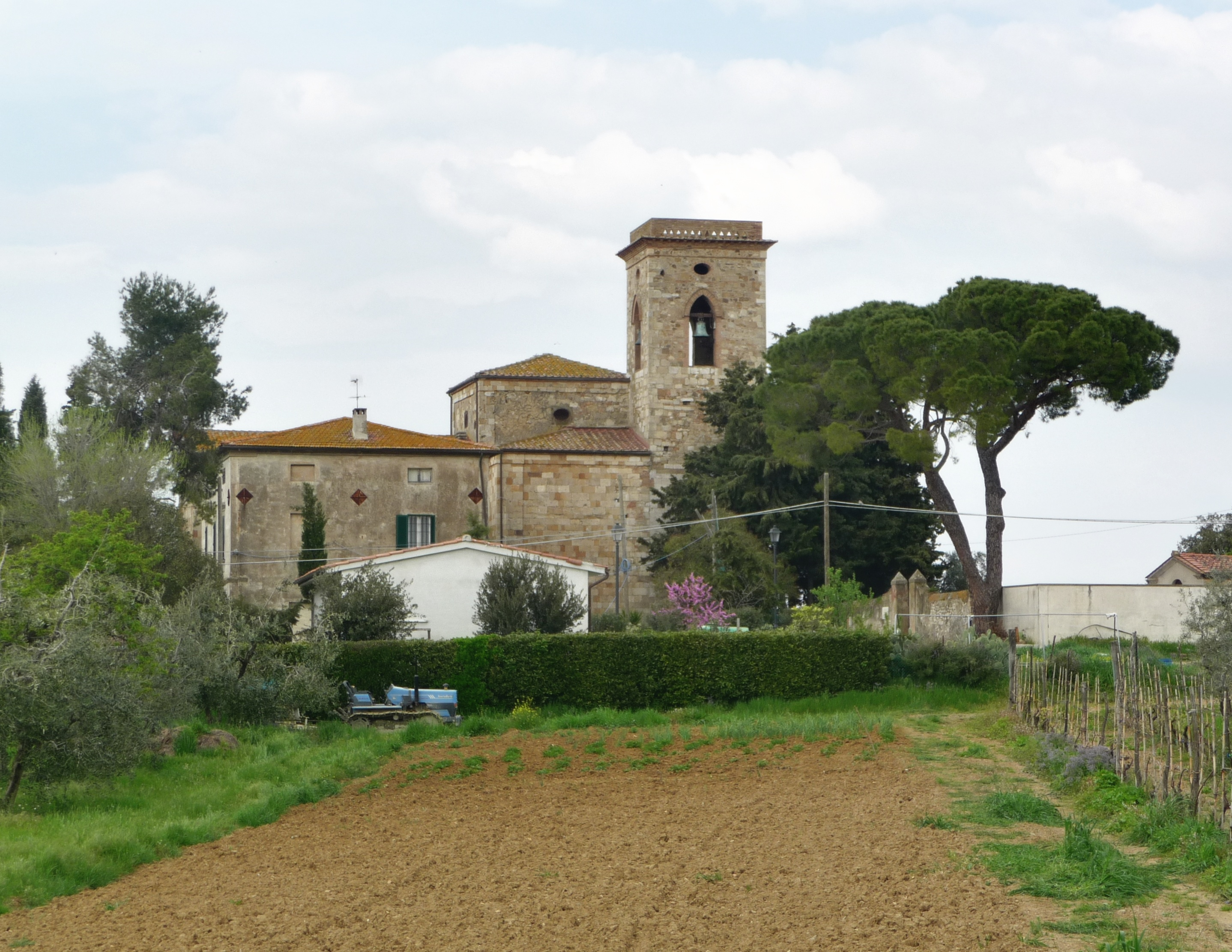 Pieve di Santa Maria Assunta e di Sant'Angelo, Santa Luce, Province Pisa, Tuscany, Italy